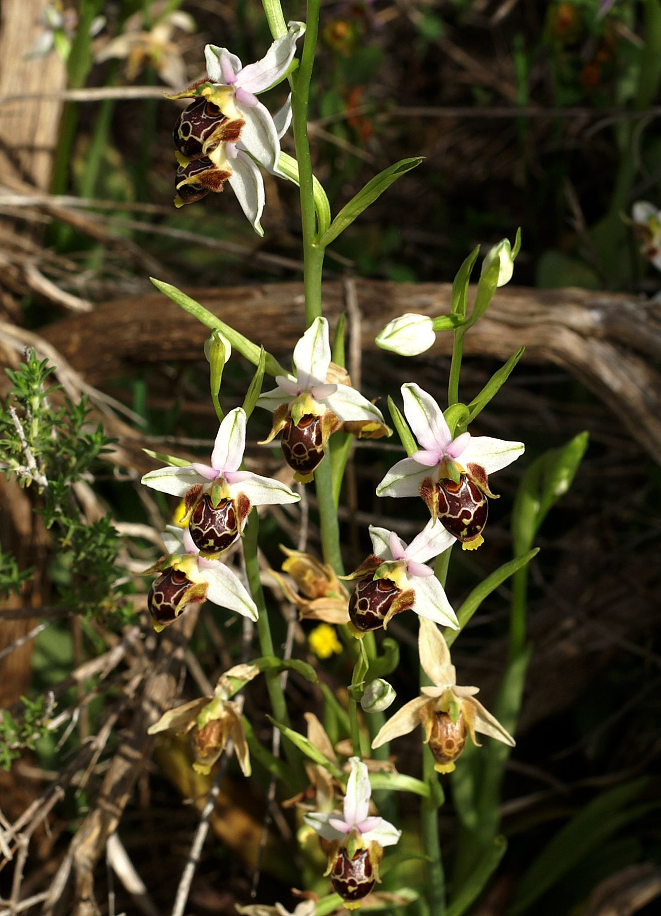 Ophrys crassicornis